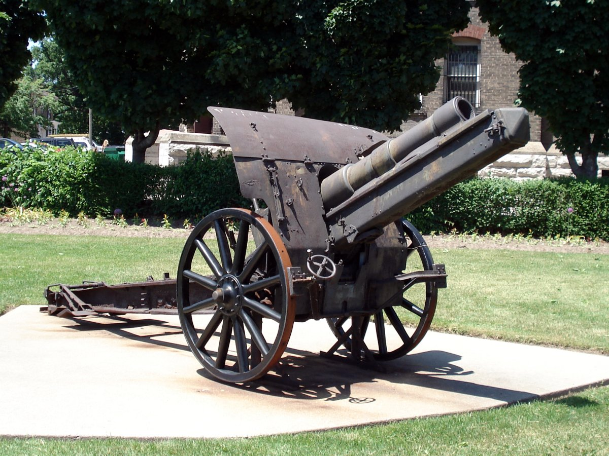 German 15 cm sFH 13 L14 howitzer displayed as a monument in Brantford, Ontario.